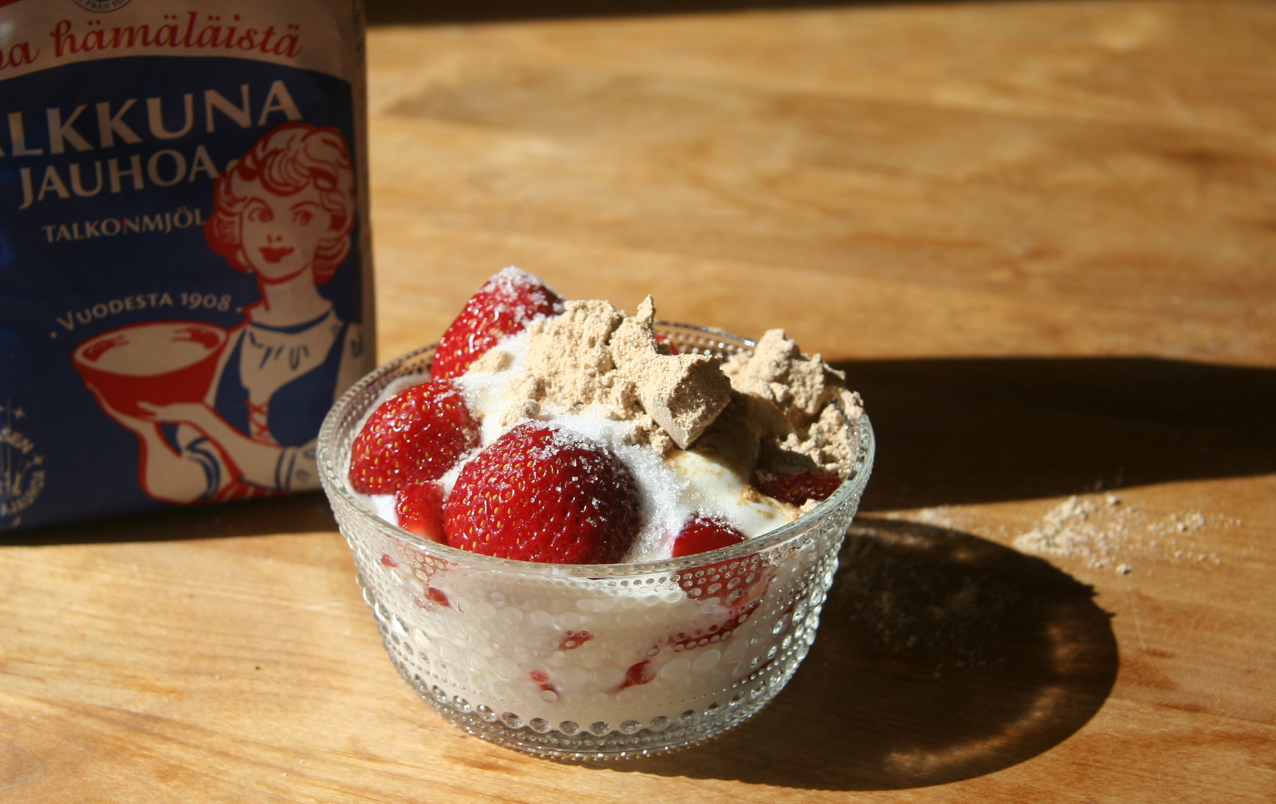 Talkkuna withe berries, yoghurt and sugar.